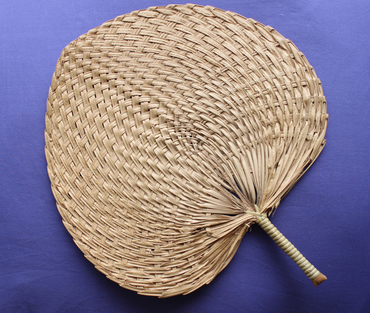 Chinese Palm Fan made with Livistona chinensis 粵語: 葵扇 Bân-lâm-gú: khuê-sìnn.